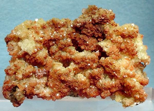 Hopeite, Parahopeite Locality: Kabwe Mine (Broken Hill Mine), Kabwe (Broken Hill), Central Province, Zambia (Locality at ) Size: 5.7 x 3.6 x 2.7 cm. Hopeite and parahopeite are RARE hydrated zinc phosphates, with the very best specimens worldwide coming from the famous Broken Hill Mine of Zambia. This EXTREMELY RICH and showy honeycomb specimen from the Brent Lockhart Collection has gemmy and lustrous, orange-brown hopeite prisms to 3 mm on a nearly solid matrix of glassy, pastel yellow-green parahopeite crystals. Broken Hill is the Type Locality for parahopeite. We lovingly call them bat-poop minerals because their crystallization is spurred by the rich nitrates from centuries, or millenia, of bat droppings in the caverns here (so I have been told long ago!). Uncommonly pretty combo material for these two dimorph species, which probably dates to the 1950-60s.